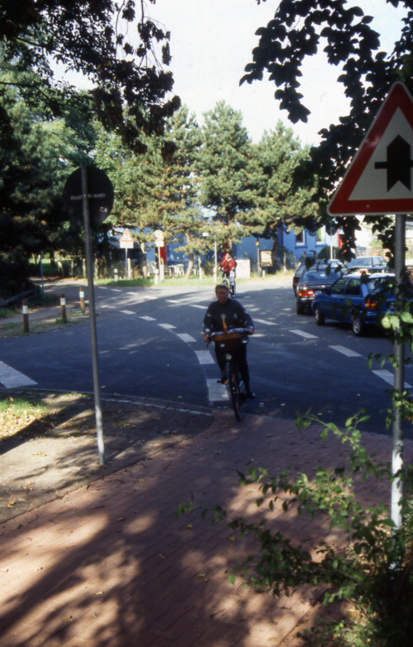 Cycleroute in Bremen, passing from a park strip into a residential street.